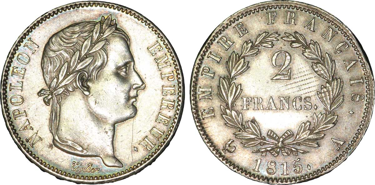 2 francs Cent-Jours, 1815,Paris LES CENT-JOURS (20/03/1815-22/06/1815) Le 6 avril 1814, Napoléon Ier signe son abdication. Par le traité de Fontainebleau du 11 avril, les Alliés lui reconnaissent le titre d'empereur avec la souveraineté de l'île d'Elbe et un revenu de deux millions. Ils accordent également à Marie-Louise la souveraineté des duchés de Parme, Plaisance et Guastalla. Napoléon fait ses adieux à sa garde le 20 avril et arrive sur l'île d'Elbe le 4 mai 1814 où il va se consacrer à l'administration de son "empire". Préoccupé par le congrès de Vienne et la présence du prince impérial à Schönbrunn, aidé par des partisans, Napoléon débarque à Golfe-Juan le 1er mars 1815 et monte à Paris par la route des Alpes. Il rallie les troupes et le 21 mars arrive triomphalement aux Tuileries, c'est le début des Cent-Jours. Il publie rapidement un Acte additionnel aux Constitutions de l'Empire pour renouer avec l'idéal révolutionnaire. Contre lui, les puissances réunies au congrès de Vienne forment une nouvelle coalition. En juin, Napoléon bat les Prussiens à Ligny le 16 mais il perd définitivement à Waterloo le 18. Rentré à Paris, il signe sa seconde abdication le 22 juin en faveur de son fils, reconnu par les Chambres comme Napoléon II. C'est la fin d'une période de cent jours. Napoléon se livre aux Anglais le 15 juillet qui décident de le déporter sur l'île de Sainte-Hélène où il débarque en octobre. Il dicte ses mémoires et le récit de ses campagnes avant de mourir en 1821 à l'âge de cinquante-deux ans.